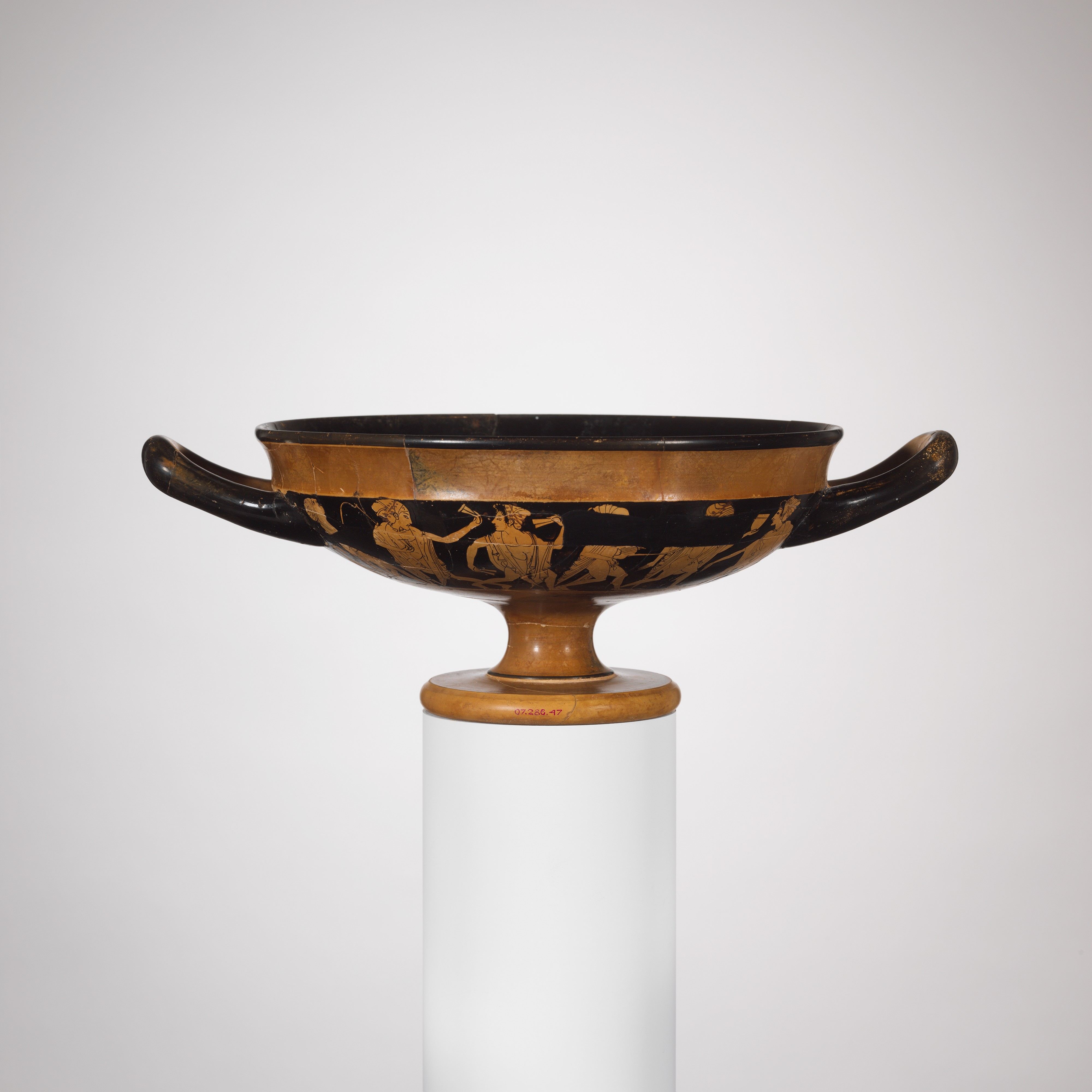 Greek, Attic; Kylix; Vases